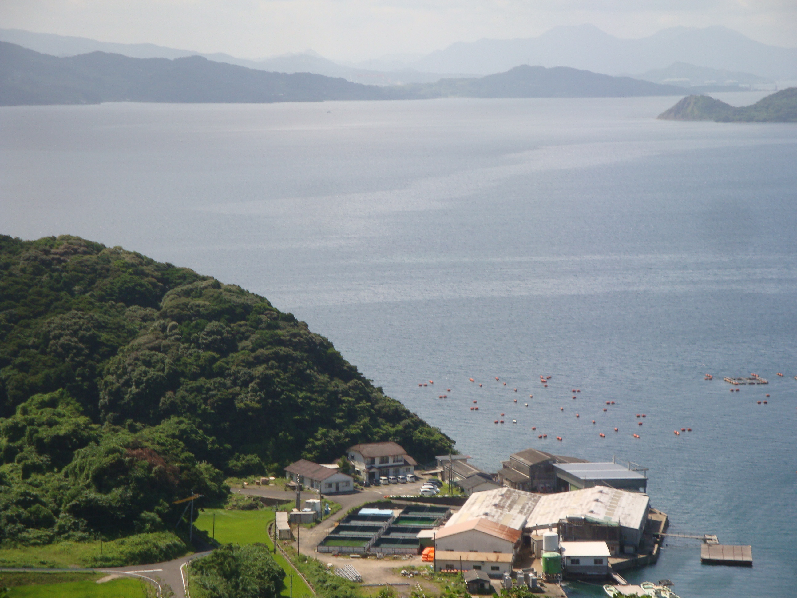 Underwater ruins which has sunken Mongol Empires battle ship